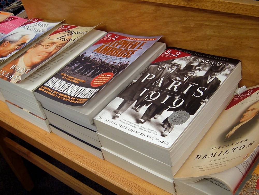 Books in the Douglasville, Georgia Borders store.